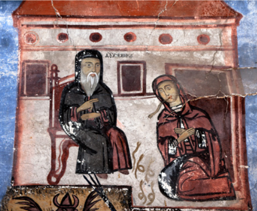 Saint Petka Church in Crešnevo Fresco